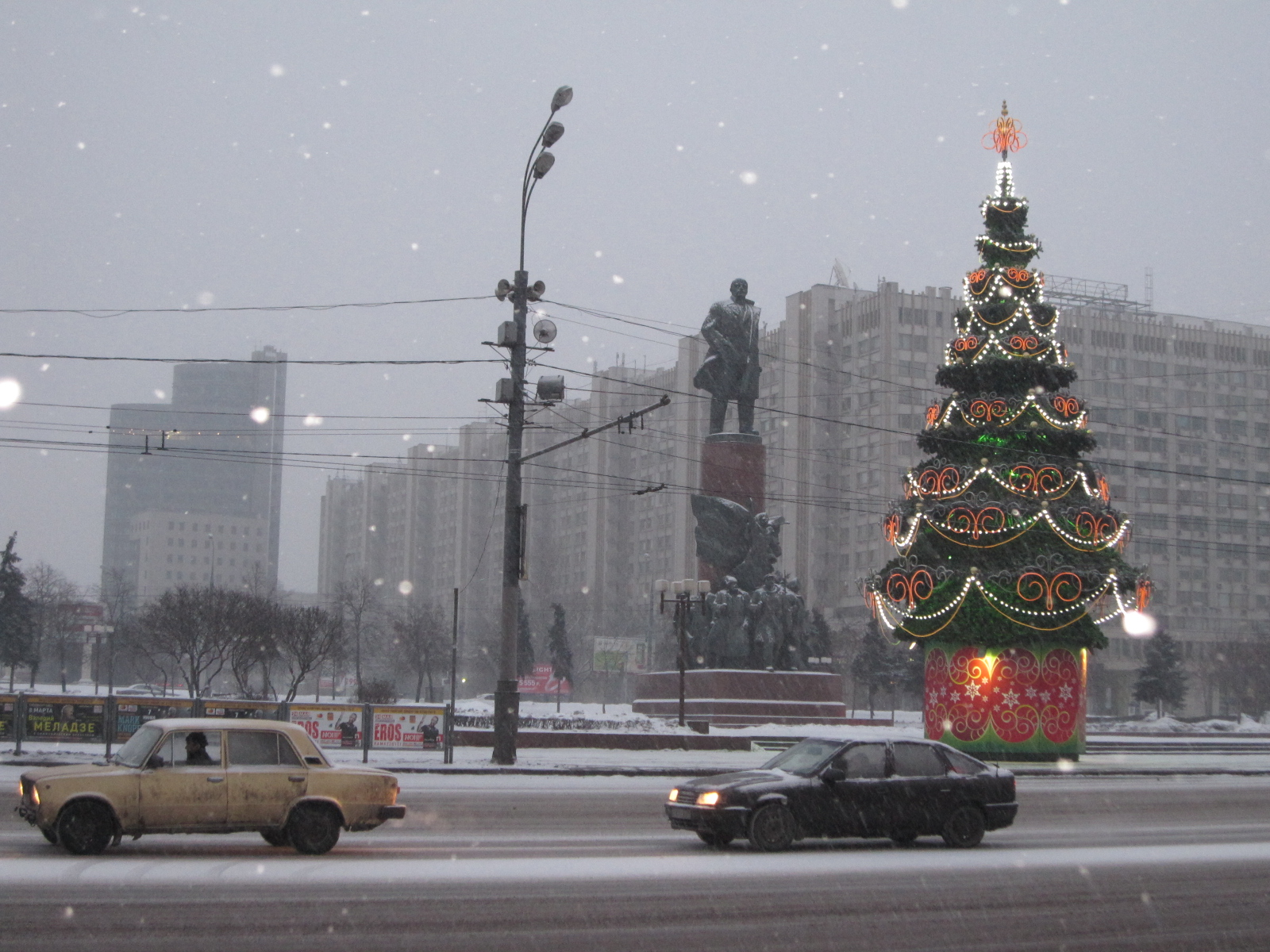 A New Year tree by a statue of Lenin near Oktyabrskaya metro station, Moscow